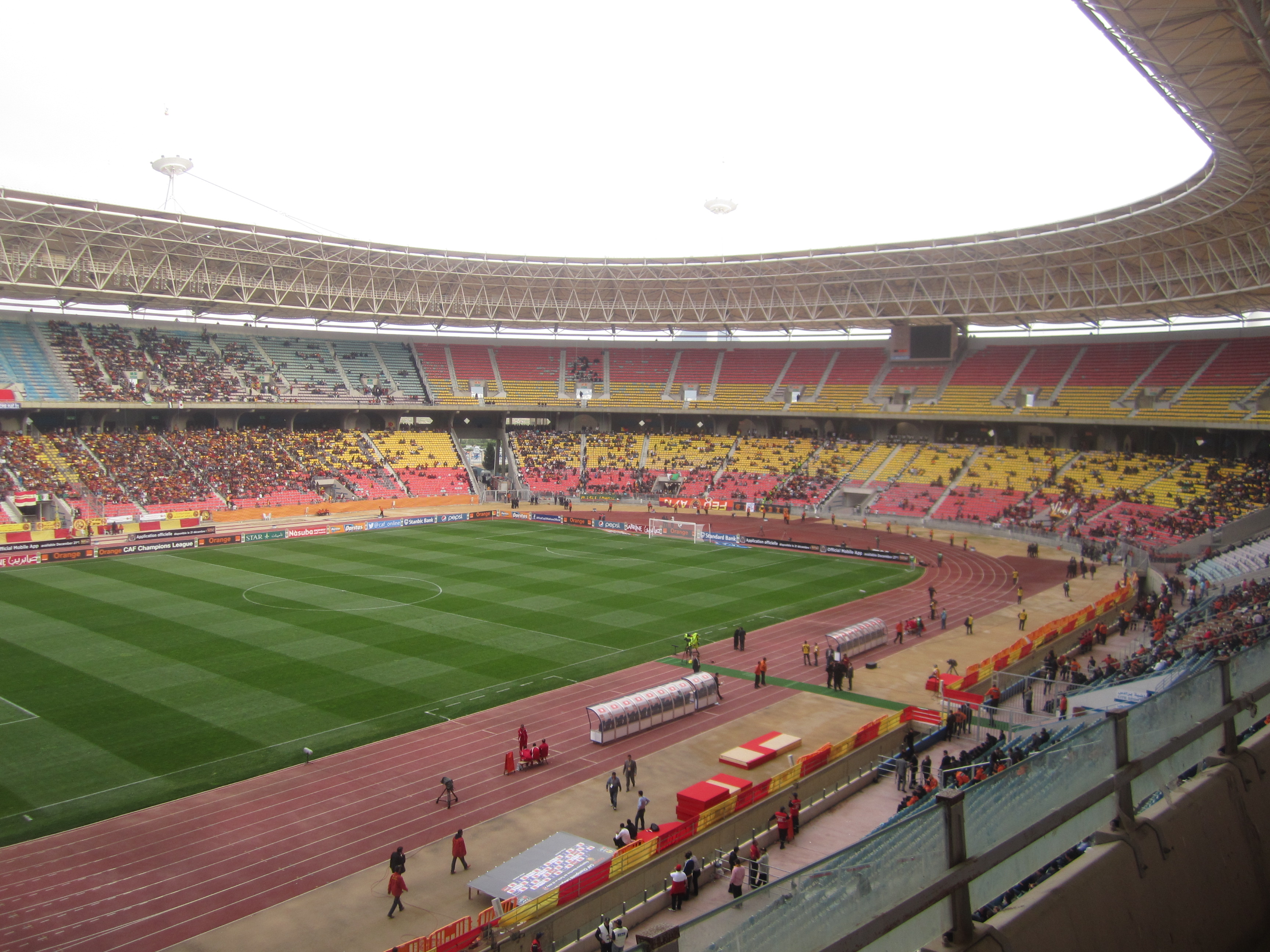 The Olympic Stadium of Radès, photo taken during the final of the CAF Champions League 2012.